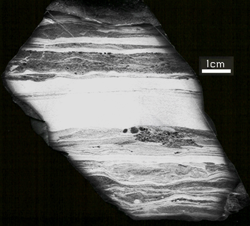 Etched section of Conococheague Formation from mile marker 20.5 of Interstate 70, Washington County, Maryland (dolomite is lighter than the limestone)